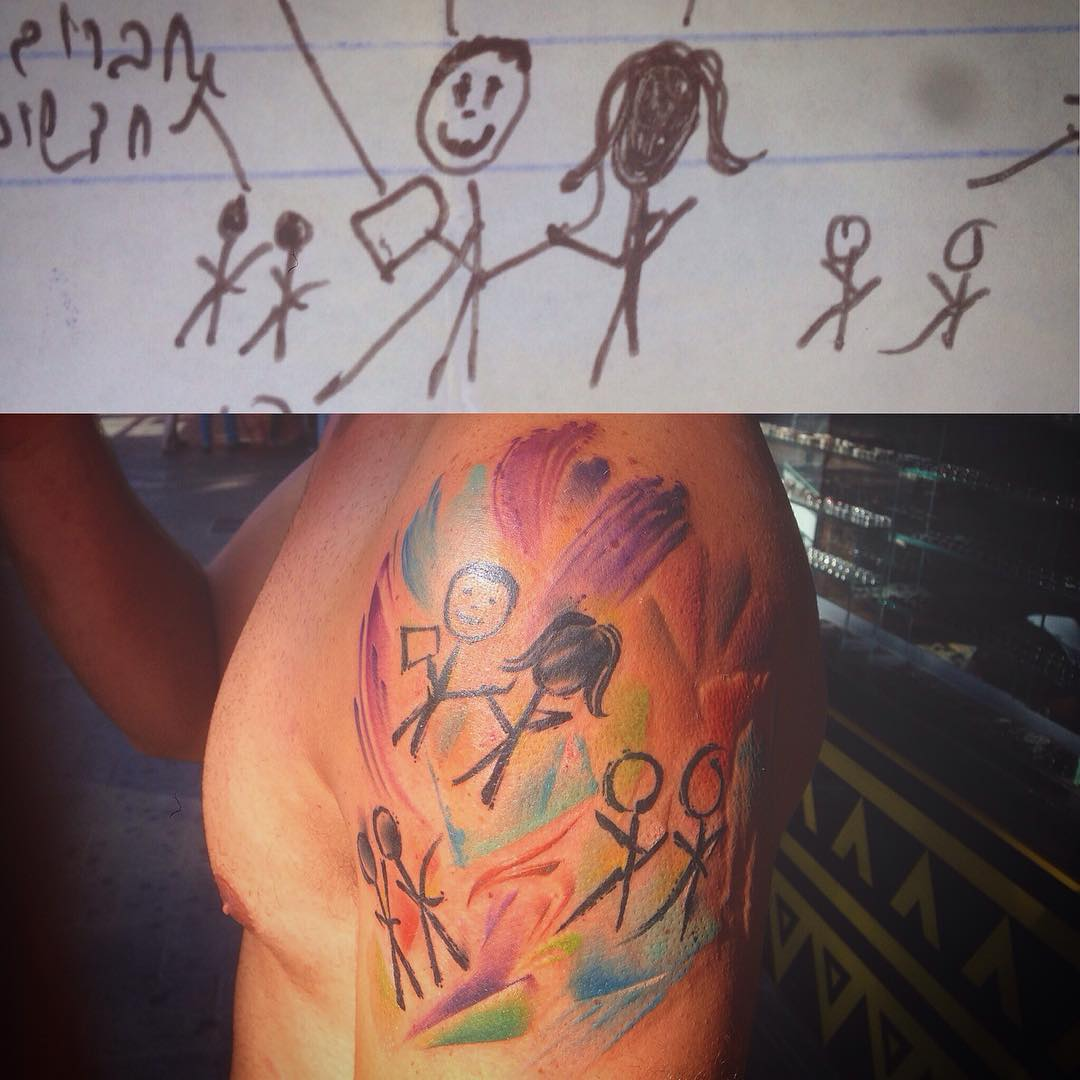 Shoulder Tattoo